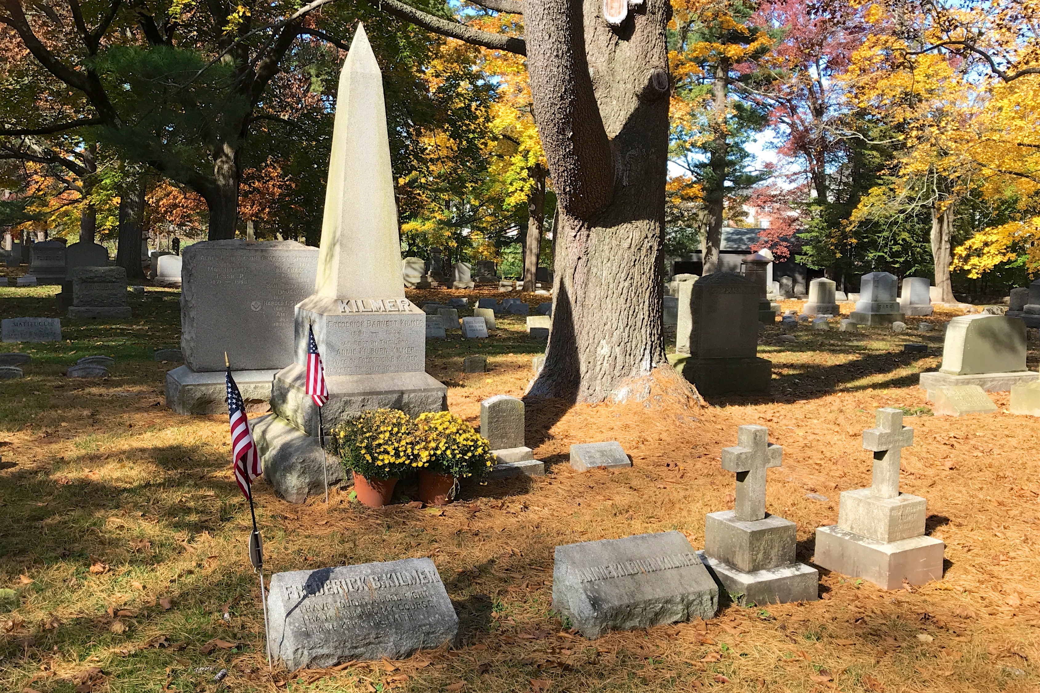 Gravestones in the Frederick Barnett Kilmer family plot and the cenotaph for his son, Joyce Kilmer, in the Elmwood Cemetery, North Brunswick, New Jersey.